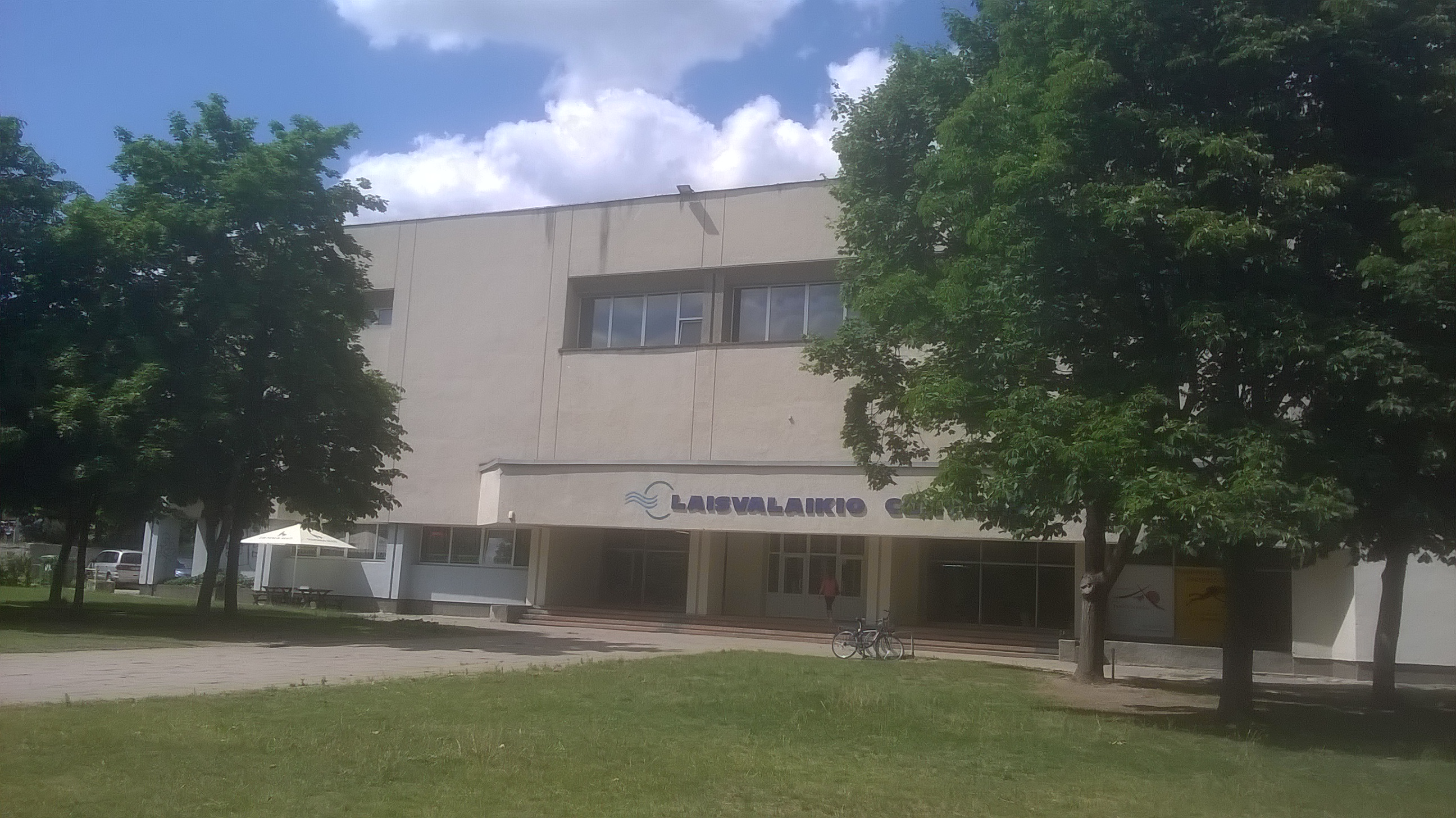 Lazdynai swimming pool.